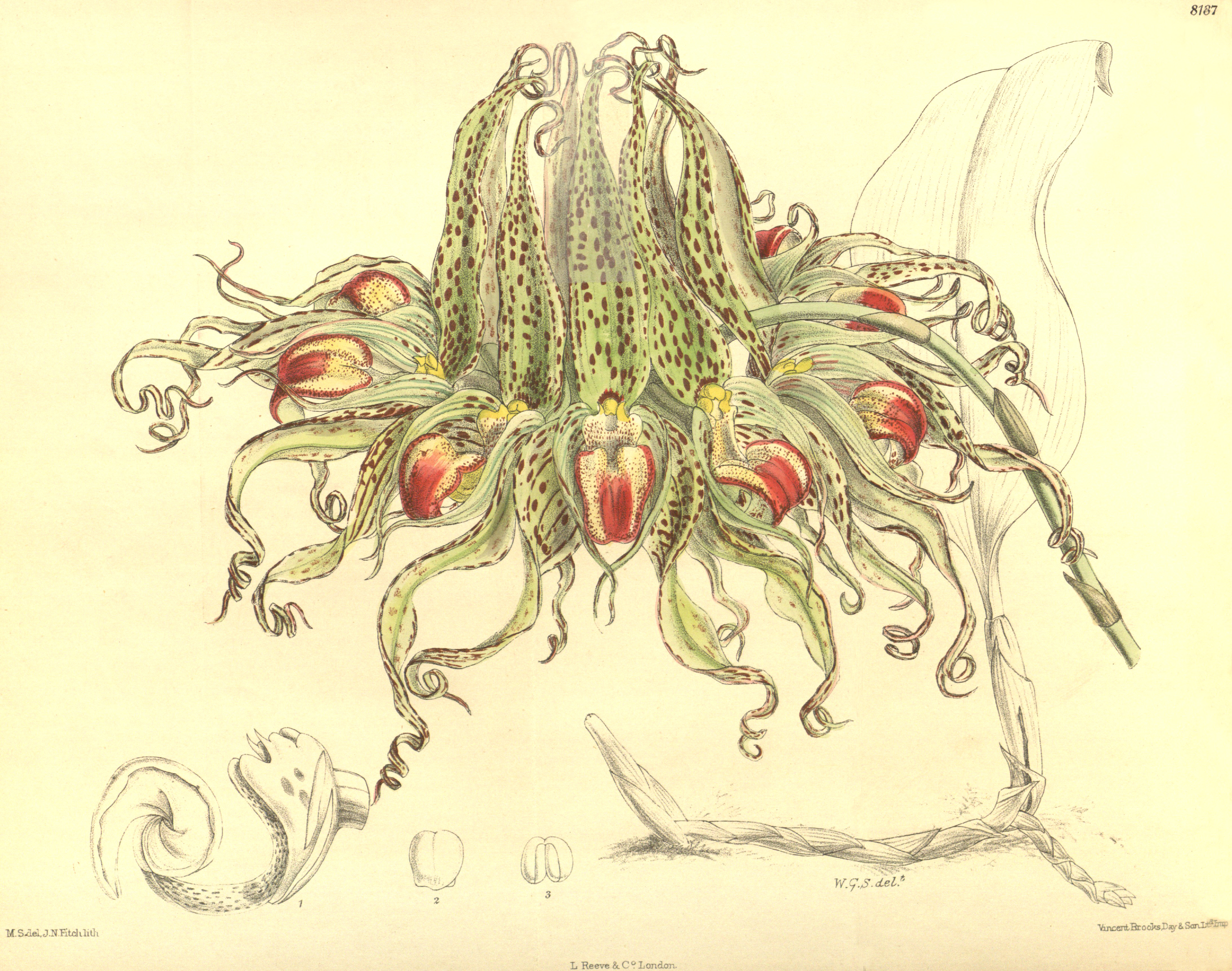 Illustration of Bulbophyllum binnendijkii